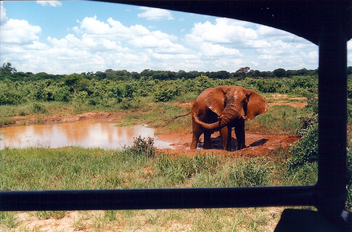 Male elephant mudbathing in Hwange National Park, Zimbabwe. Taken from a distance of about 10 m, Dec 1999 on film. One of five photos (see below).